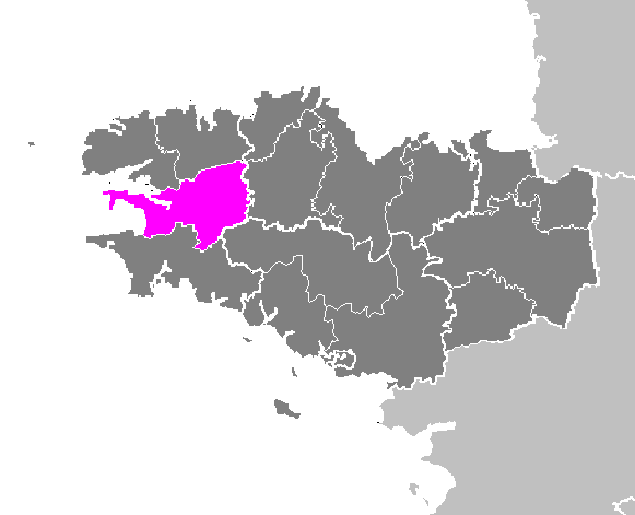 Maps of arrondissements and cantons of France: Arrondissement de Châteaulin.PNG